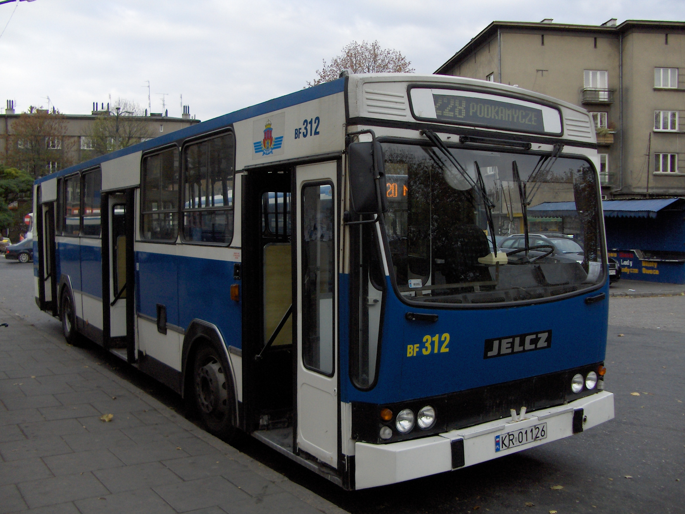 Jelcz 120M bus (#BF312) in Kraków, Poland. Built 1994, MPK Kraków operator.